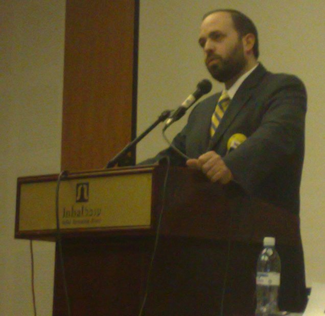 Ariel Atias